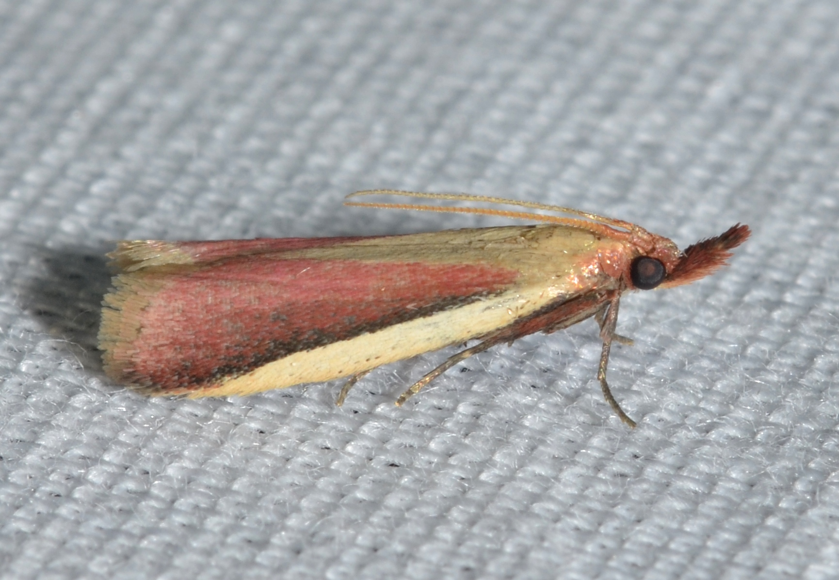 Cuivre River State Park 6/6/15